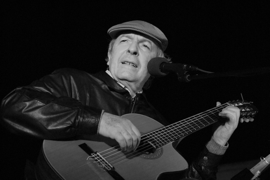 Daniel Viglietti - Concert in Aguas Dulces, Rocha, Uruguay - January 6th 2007